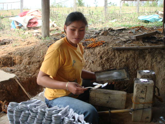 In the village of Ban Napia near Phonsavan villagers are re-using UXO war scrap to make spoons to be sold as souvenirs. The war scrap has been made safe beforehand by UXO Lao. This community based project provides valuable income for the villagers.